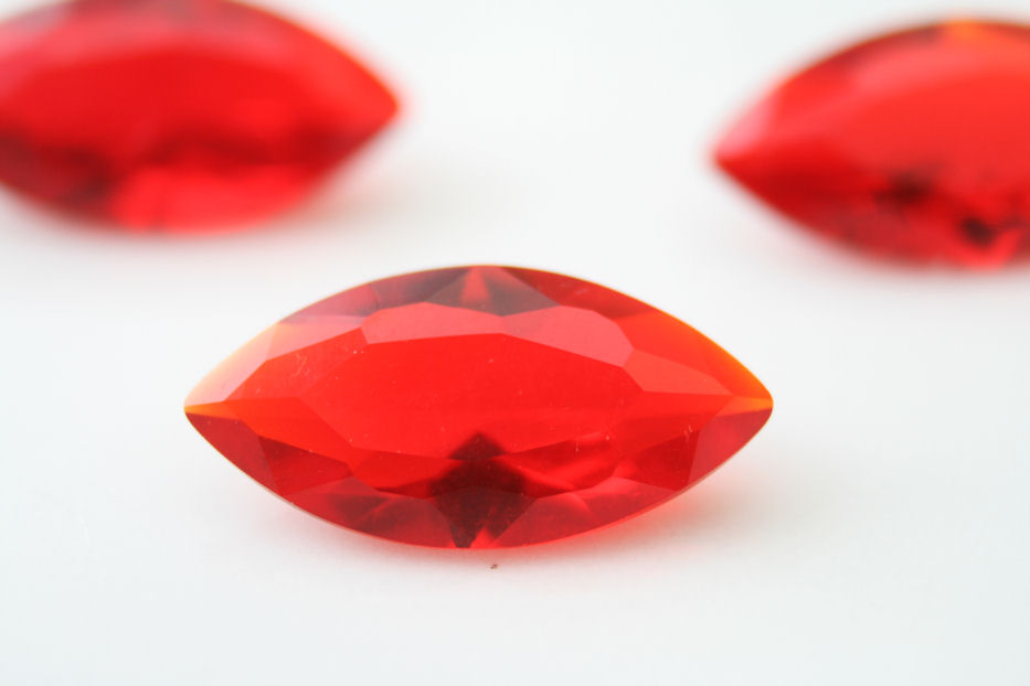 Red Marquise cut glass gemstones. 14x7mm